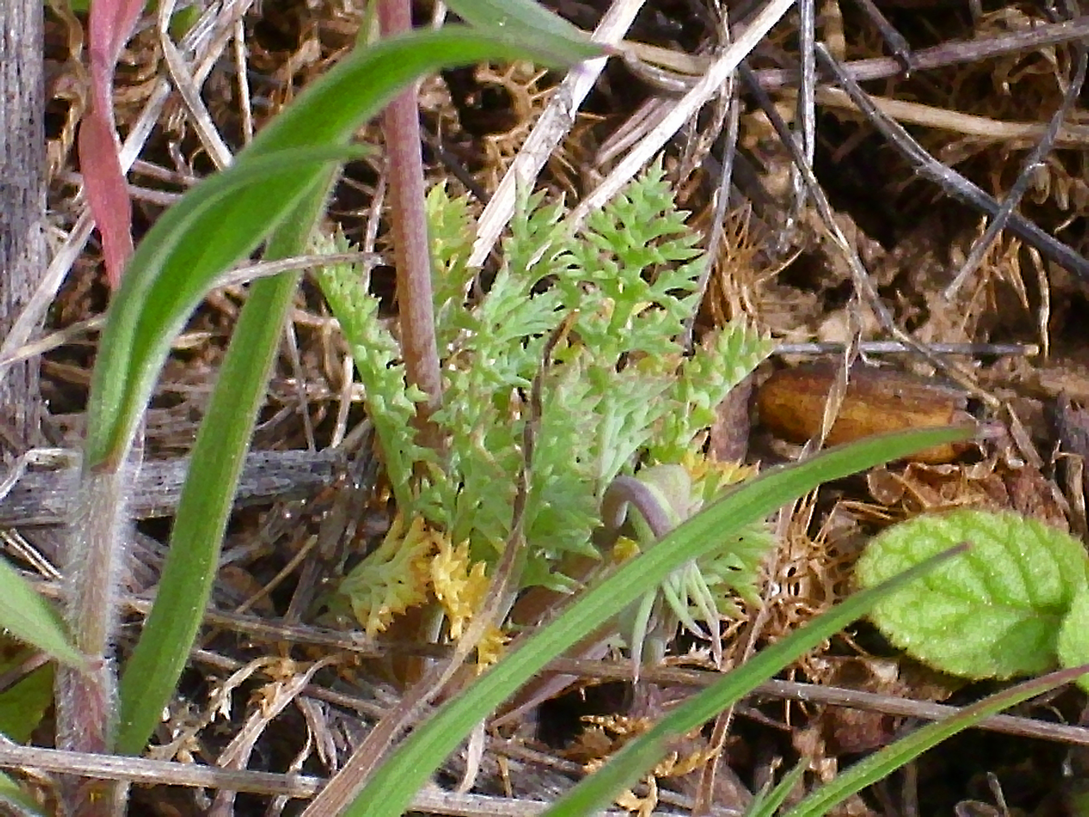 Hypecoum imberbe stem and leaves, Campo de Calatrava, Spain